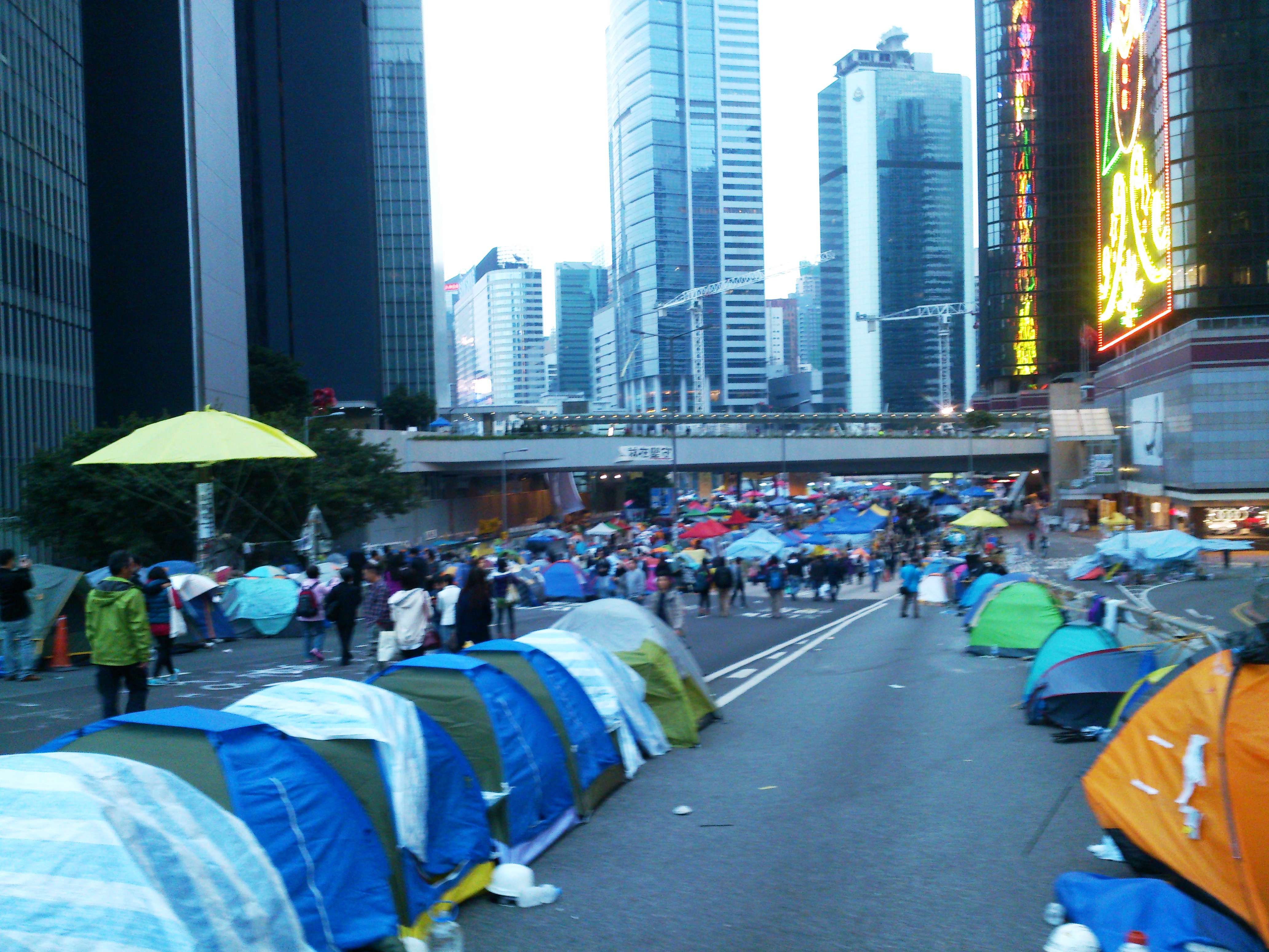 Harcourt Road Flyover near Far East Finance Centre on 2014-12-07